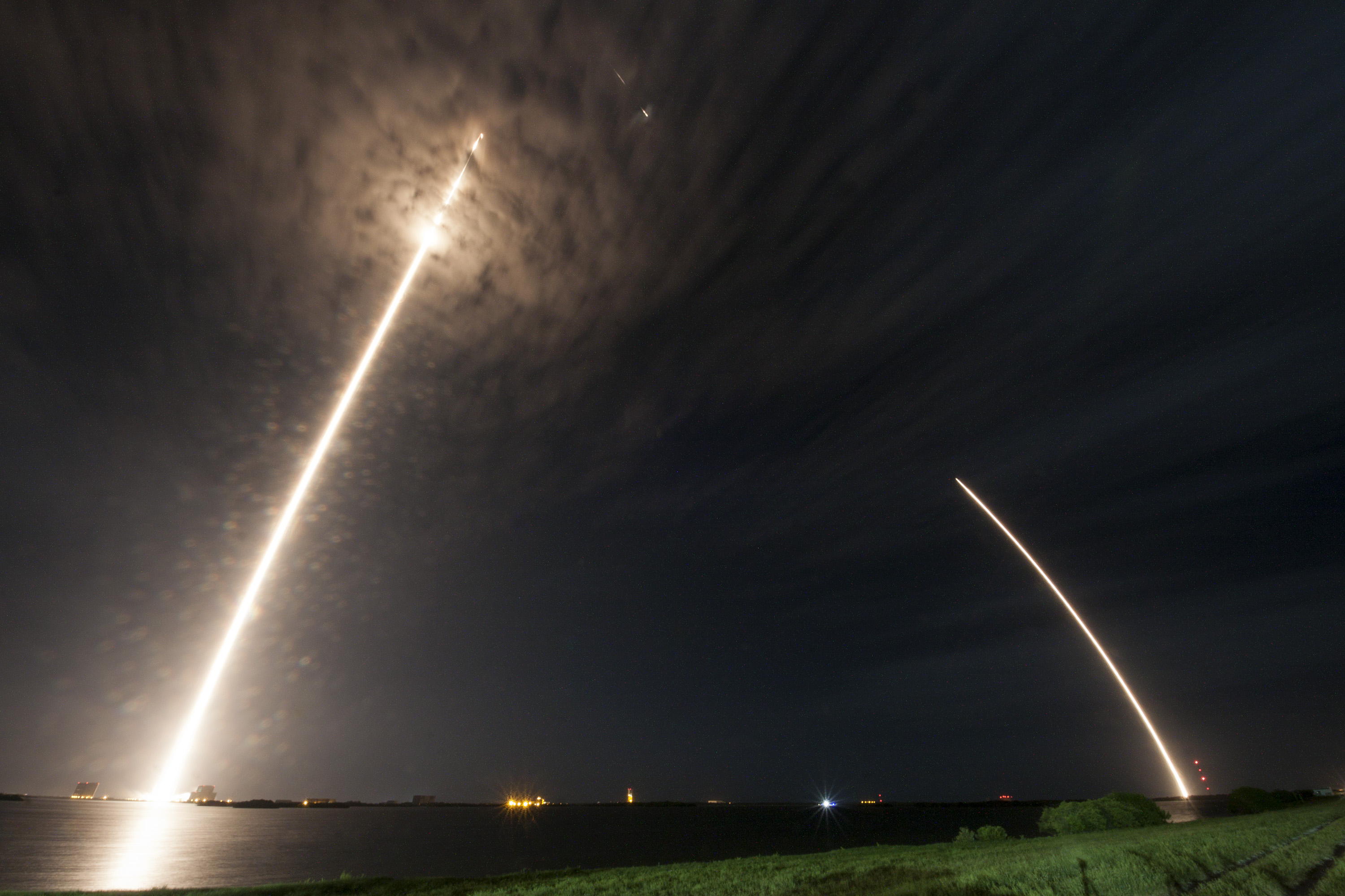 The starting and landing CRS-9 Falcon 9 rocket is seen in this long exposure.